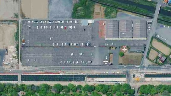 Saitama Subaru Sakitama Garden (Gyōda, Saitama).